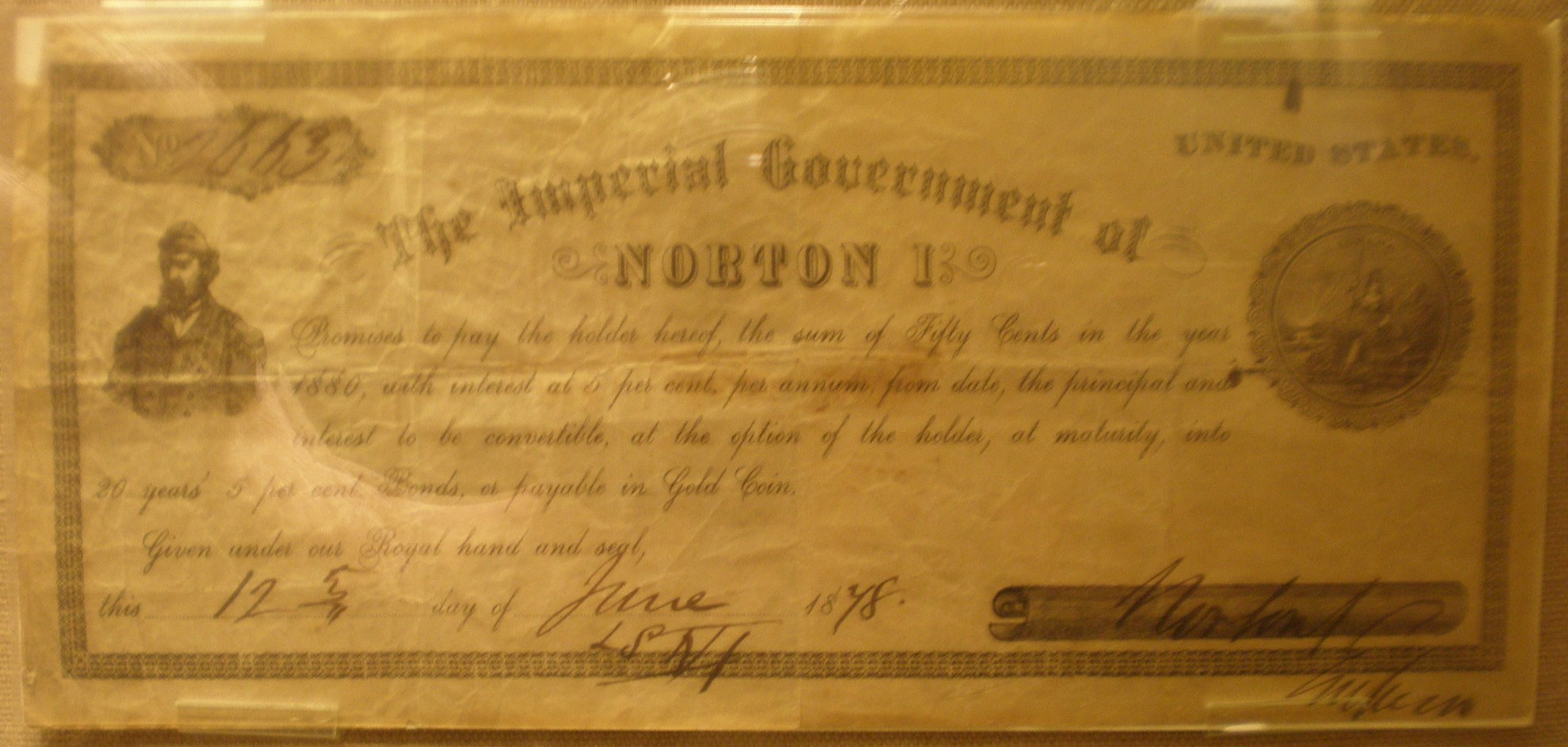 A 50 cent note issued on June 12, 1878 by Emperor Norton I on display at the Wells Fargo History Museum in San Francisco, California.